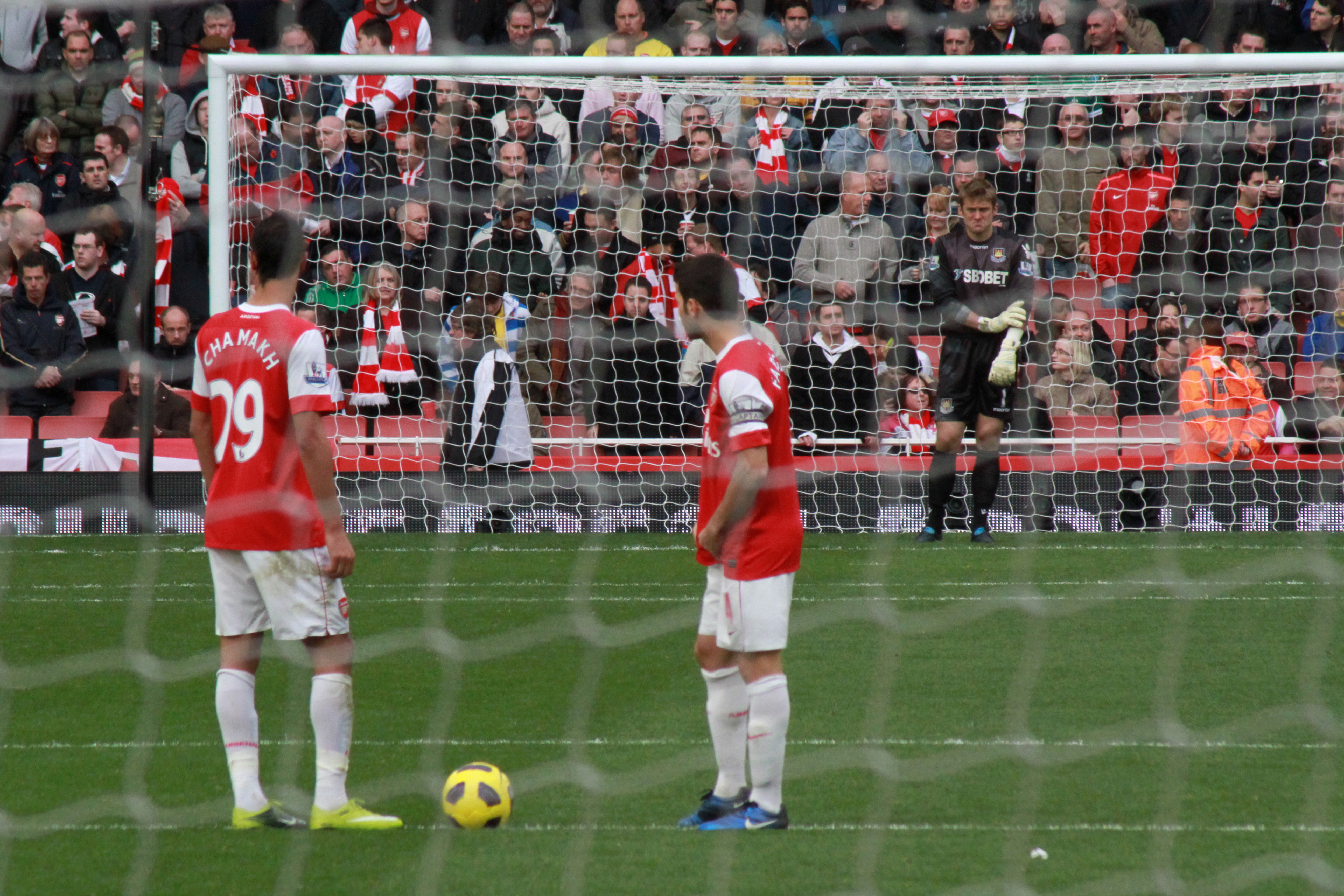 Arsenal v West Ham United at the Emirates Stadium on 30 October 2010. Arsenal won 1-0 with a late 88minute goal by Alex Song. "One - Nil to The Arsenal!"